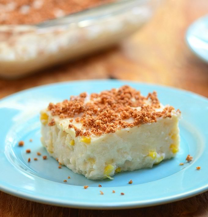 rice cake